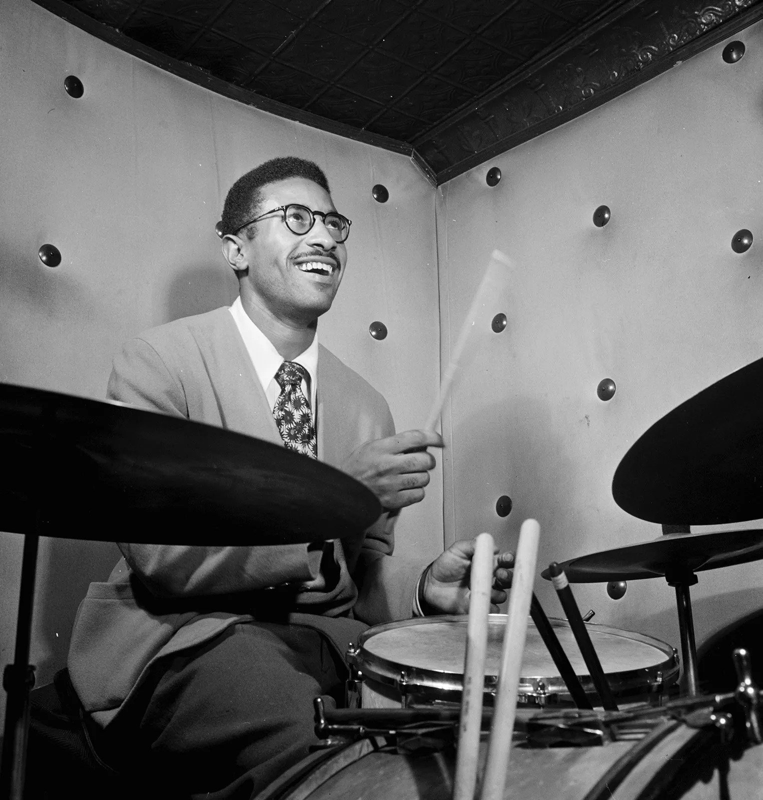 Max Roach, Three Deuces, NYC, ca. October 1947. Photography by William P. Gottlieb.